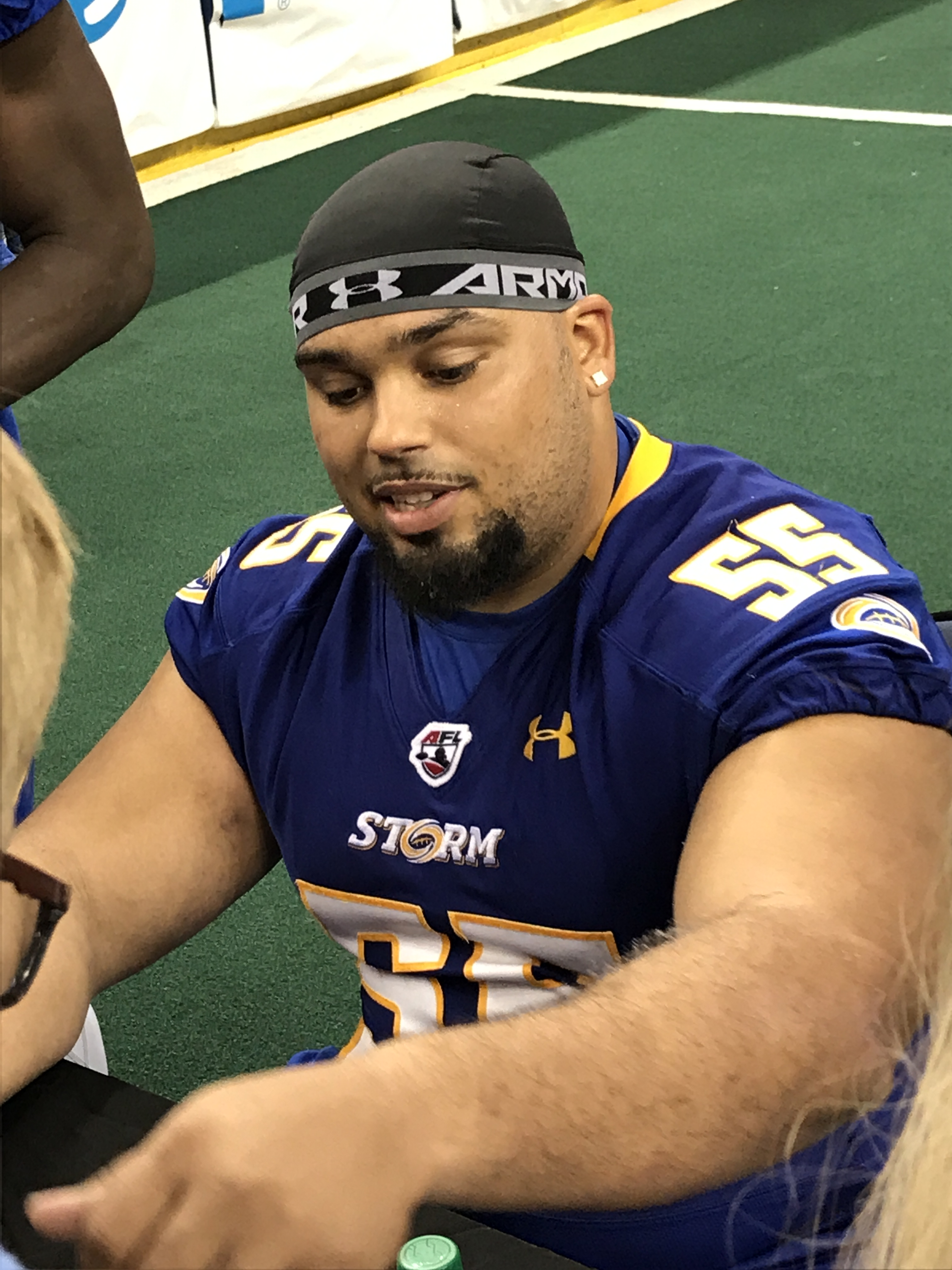 Dexter Jackson signing and autograph